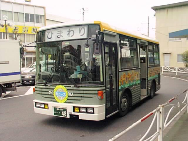 Nissan Diesel KC-RN210CSN for Fuji City Community Bus Himawari operated by Fujikyu Shizuoka Bus W7859